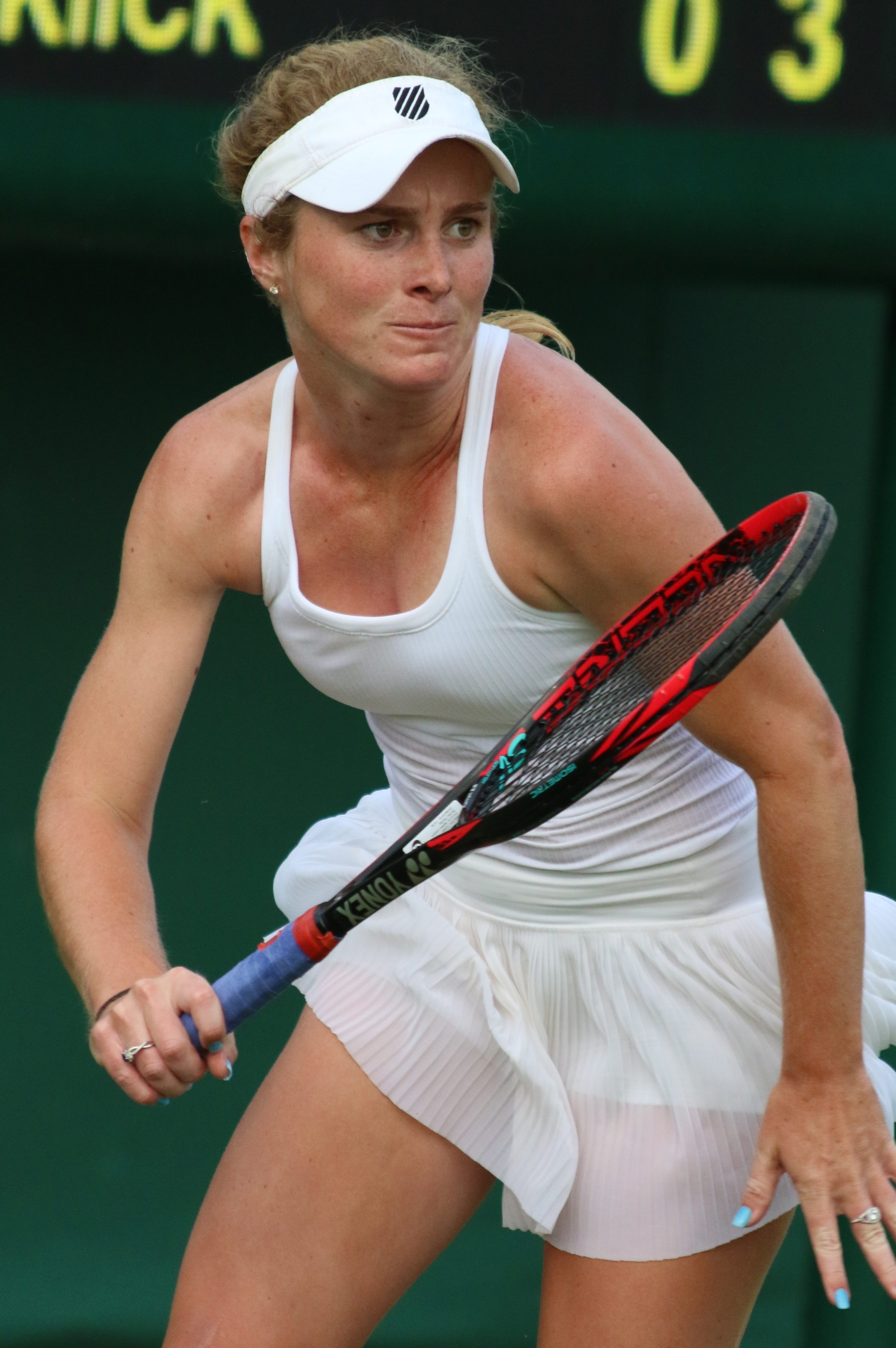 2019 Wimbledon Qualifying Tournament.